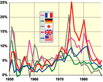 G5 inflation chart. Information from Done in Adobe Illustrator.